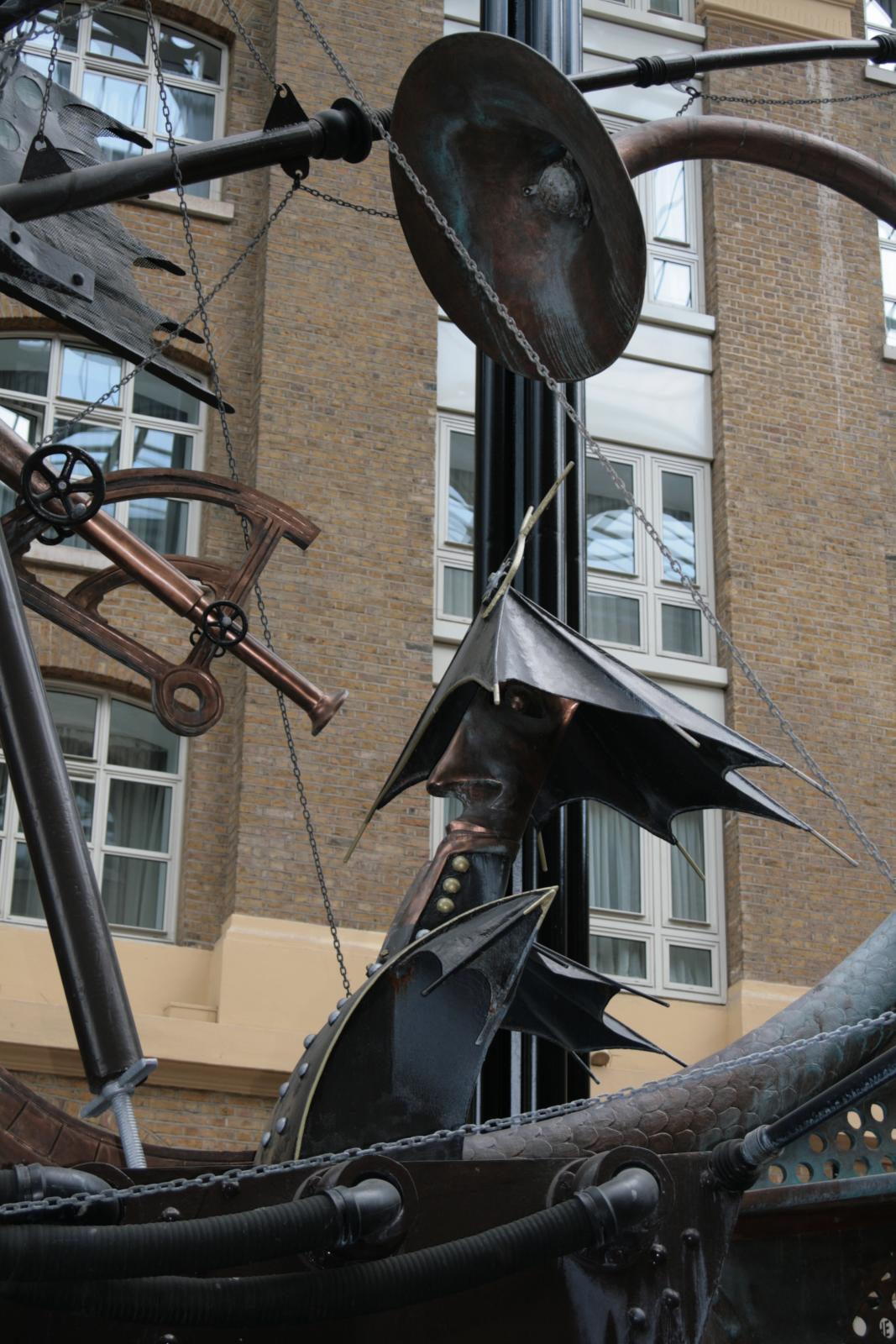 The Navigator (detail) by David Kemp (sculptor) in London/U.K.